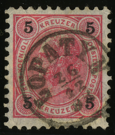 Austria KK 5 kreuzer stamp, issue 1890, fingerhut cancelled at LOPATYN, Galicia, Ukraine in 1894.